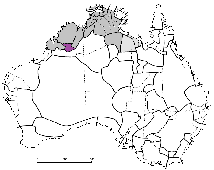 Bunuban languages (purple), among other non-Pama-Nyungan languages (grey)